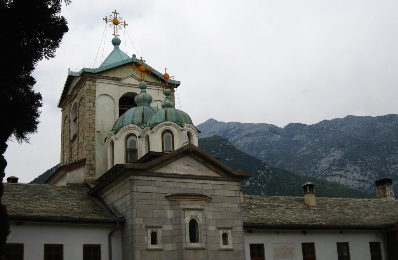 Peak of Mount Athos as seen from the courtyard of the Prodromos Skete. In the left: the 23 m hight belfry and the "Dormition of the Theotokos" chapel. Camera is roughly pointing West.